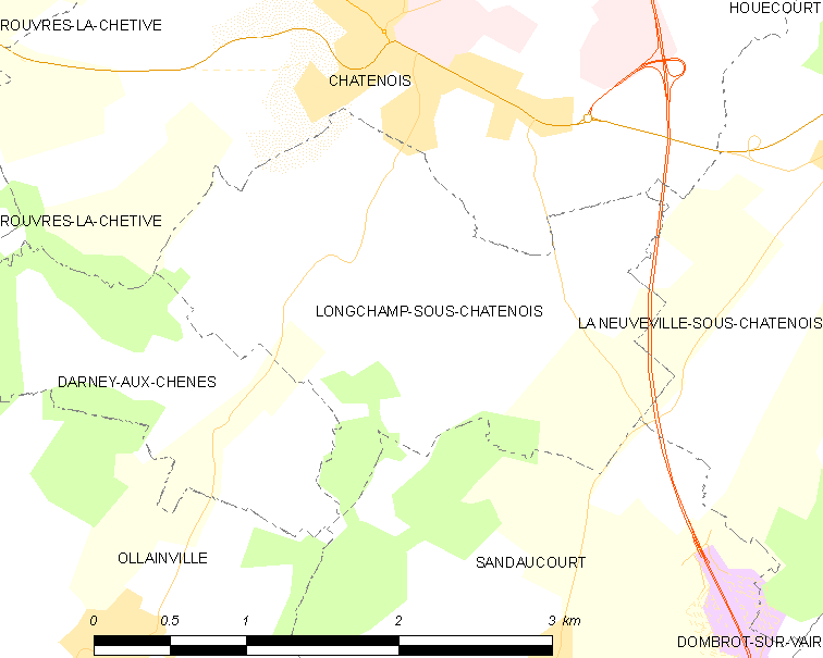 Map of French municipality Longchamp-sous-Châtenois